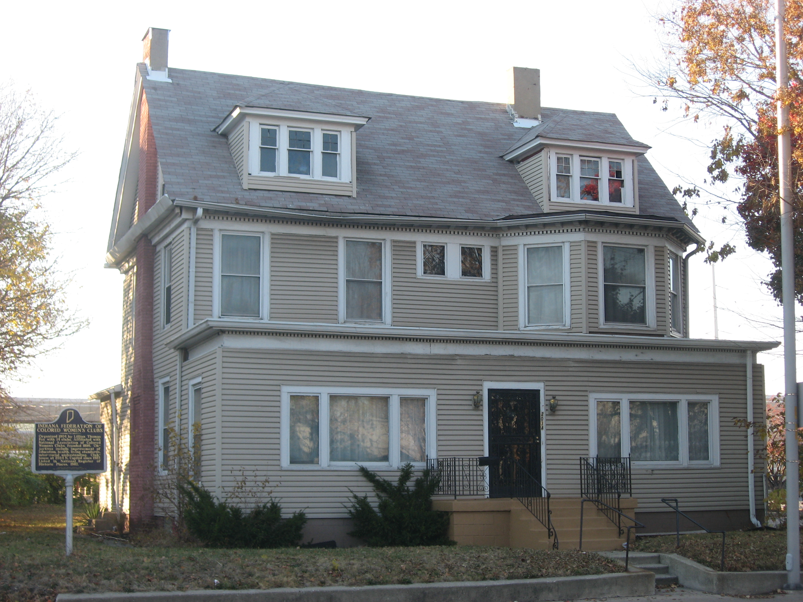 Front of the former headquarters of the Indiana State Federation of Colored Women's Clubs, located at 2034 N. Capitol Avenue in Indianapolis, Indiana, United States. Built in 1922, it is listed on the National Register of Historic Places.